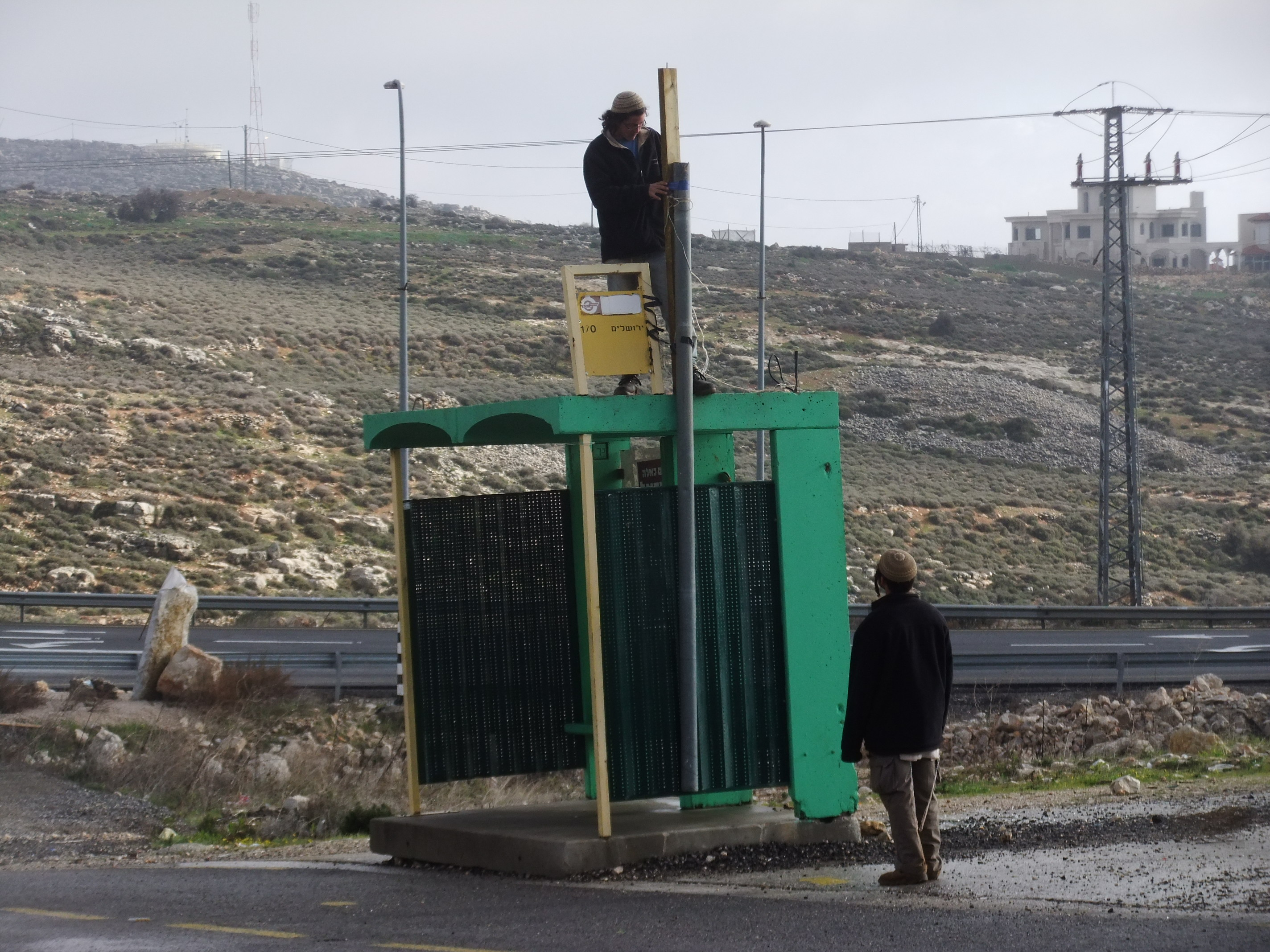 Preparation of Eruv between Oz Zion and Givat Assaf